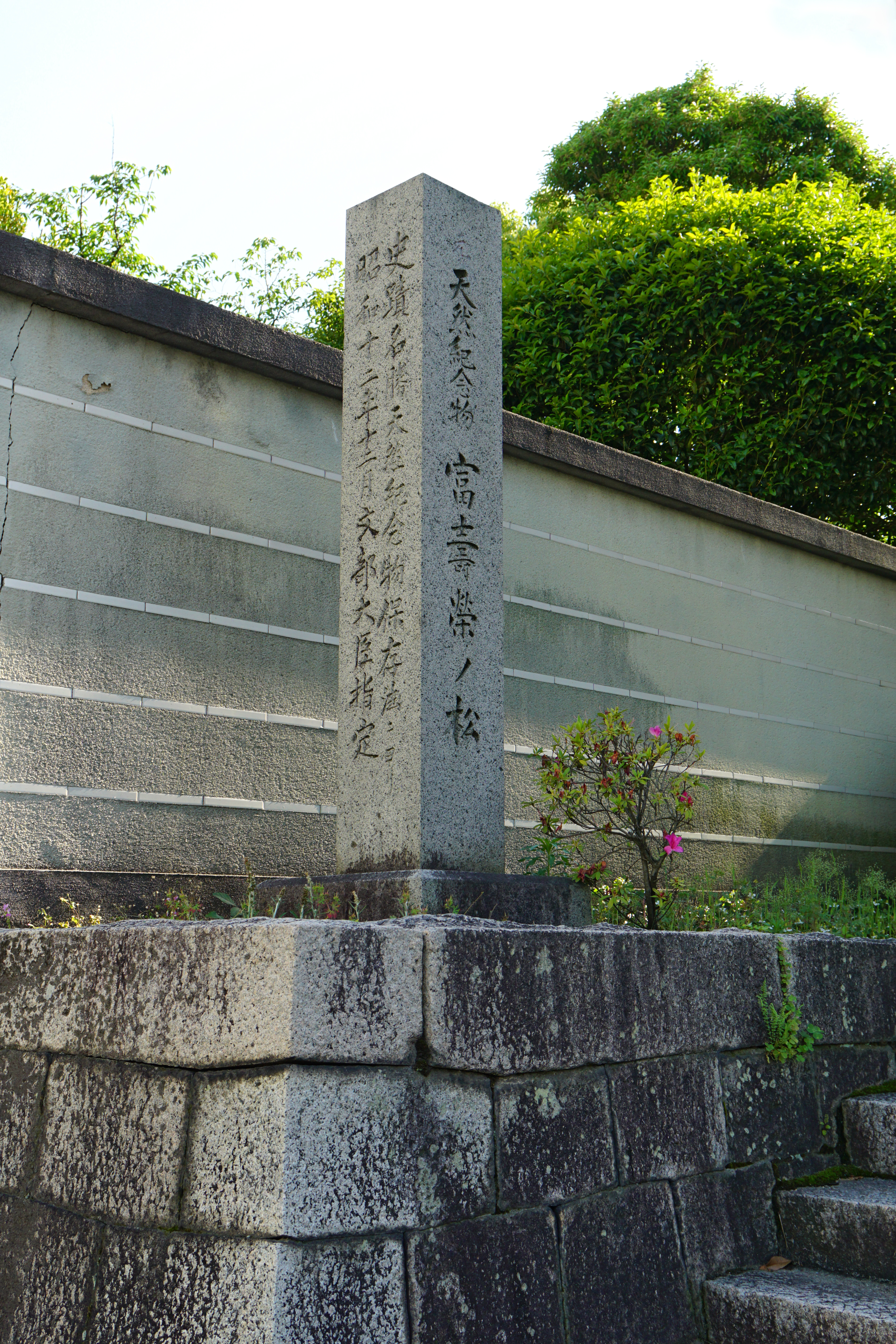 Honsho-ji in Takatsuki, Osaka prefecture, Japan